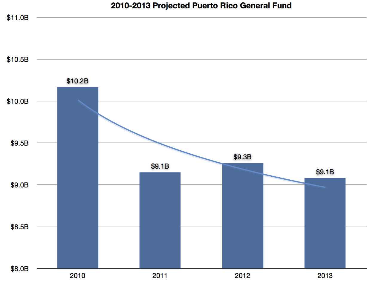 Puerto Rico General Fund for the fiscal years 2010–2013